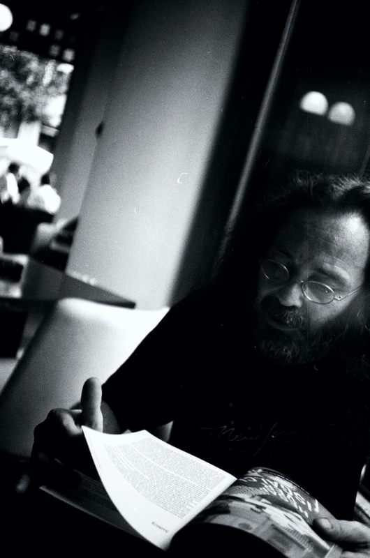 Bülent Somay (2006/Cihangir/İstanbul/Turkey) Some rights reserved by Koray Löker